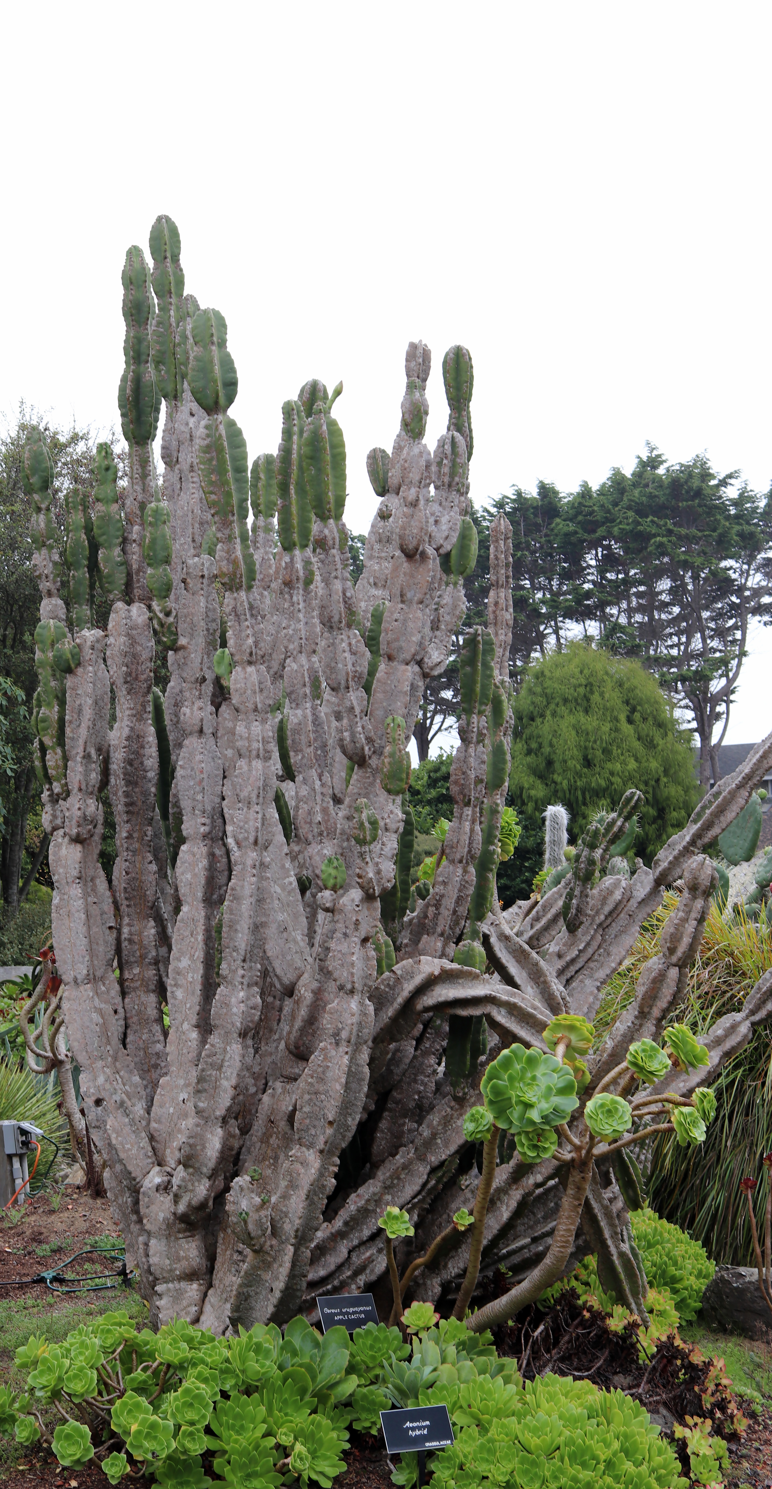 Cereus hildmannianus subsp. uruguayanus at the Mendocino Coast Botanical Gardens, Fort Bragg, Ca. on October 19, 2018. Identified by sign.